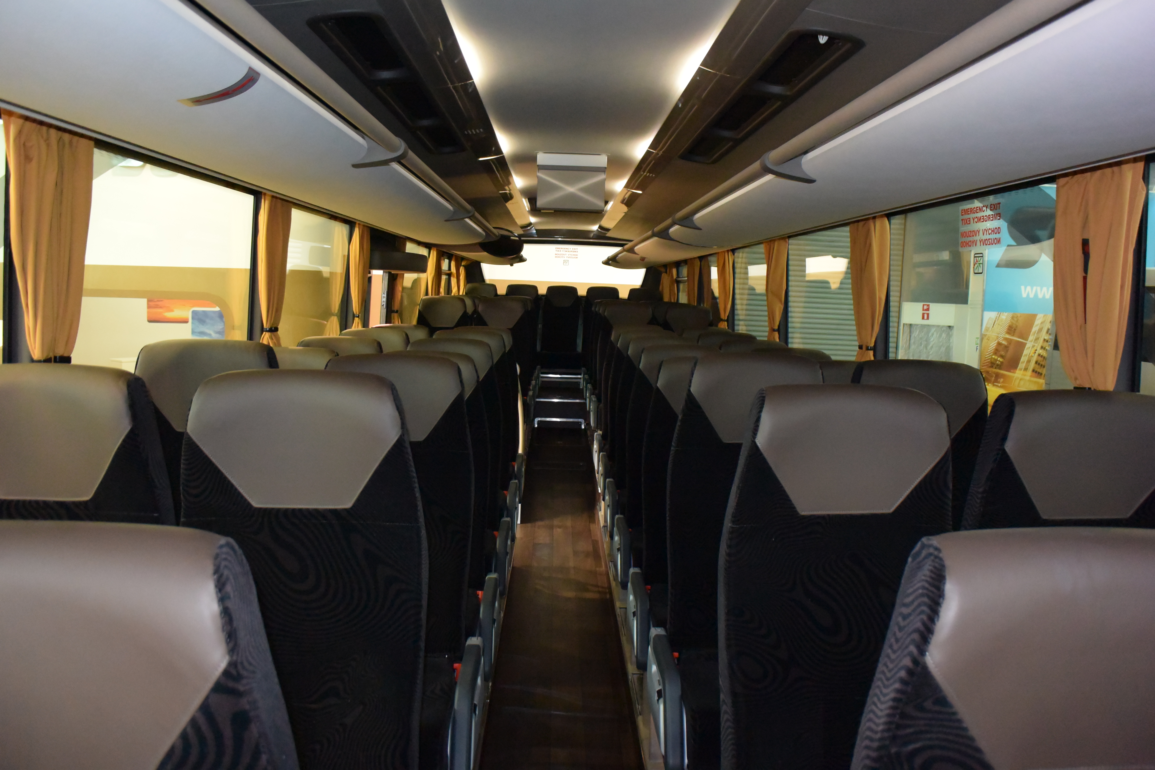 Iveco Crossway, Transexpo 2014, Kielce